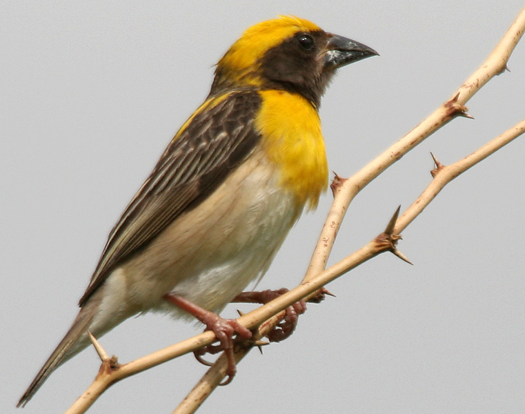 Baya Weaver Ploceus philippinus- Tokora, Tokora chorai (Assamese); Baya, Son-Chiri (Hindi);Baya Chadei (Oriya); Sugaran (Marathi); Tempua (Malay); Sughari (Gujarati); Babui (Bengali); Parsupu pita, Gijigadu/Gijjigadu (Telugu); Gijuga (Kannada); Thukanam kuruvi (Malayalam);Thukanan-kuruvi (Tamil); Wadu-kurulla, Tatteh-kurulla, Goiyan-kurulla (Sinhala); sa-gaung-gwet, mo-sa (Myanmar); Bijra (Hoshiarpur); Suyam (Chota Nagpur)- male in Hyderabad, India.